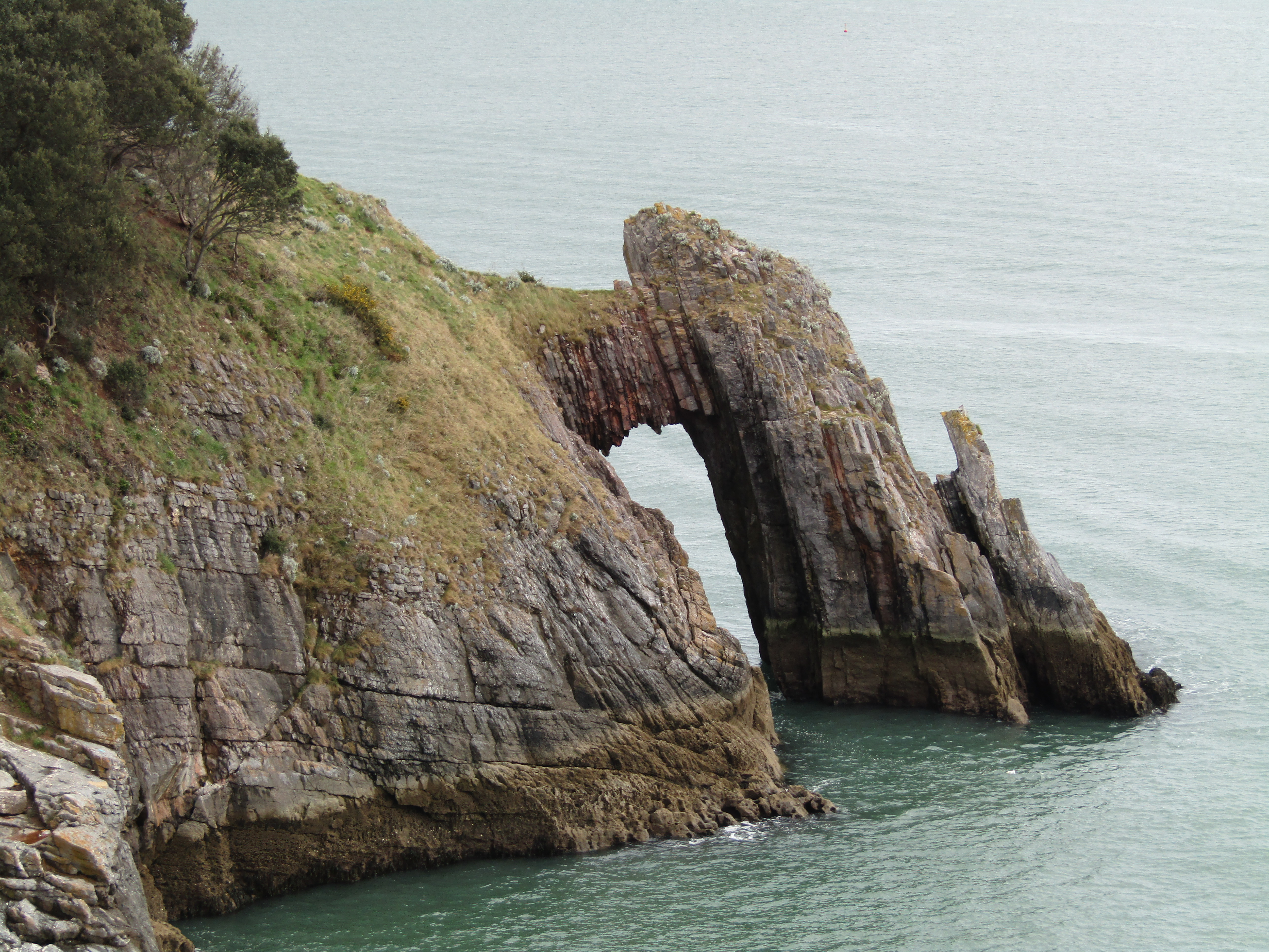 A view of London Bridge (Torquay) from Land's End.